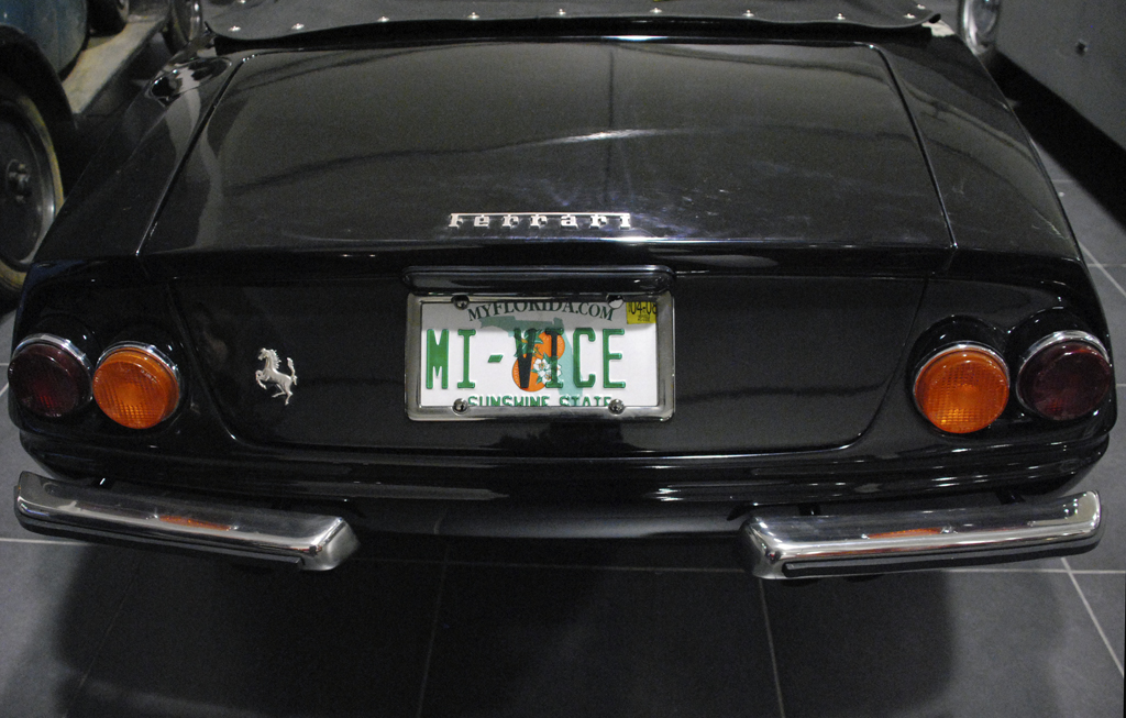 Car. Model: Ferrari 365 Daytona Spider Corvette "Miami Vice" by McBurnie Coach Works. Year: 1972-1978.